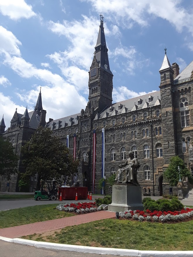 Healy Hall with John Carroll statue in foreground on Georgetown University campus in Washington, DC.